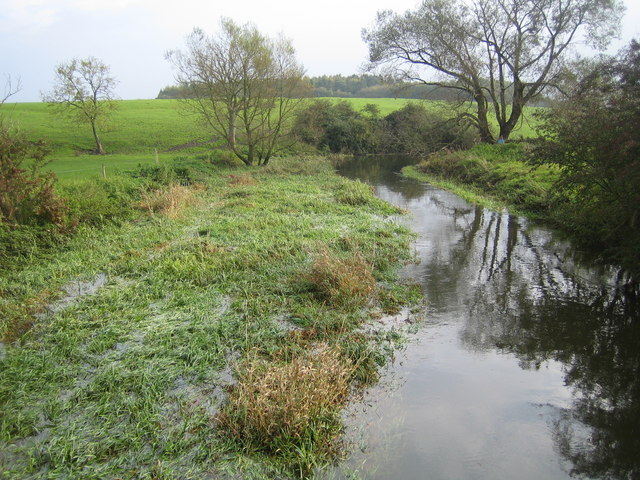 River Thames near Eysey